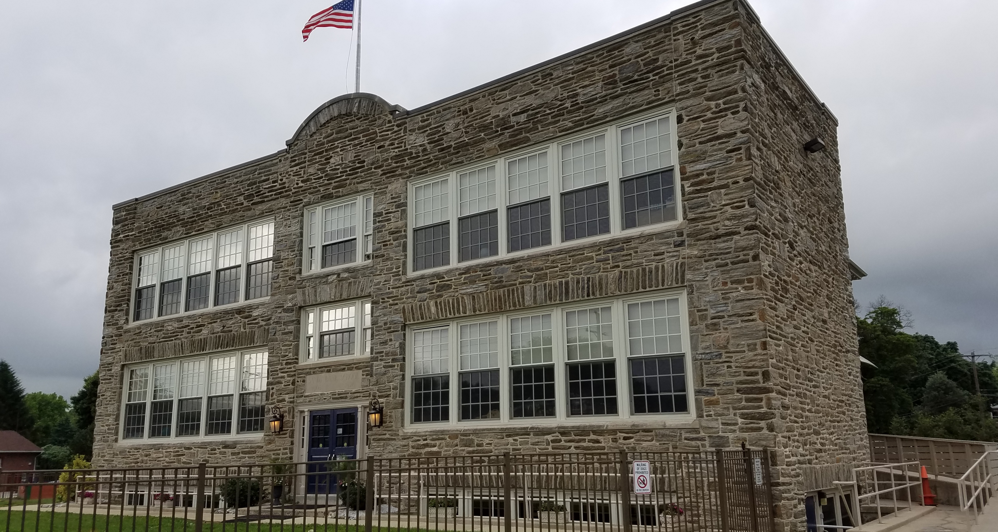 The main building of the Walden School, formerly the home of the Sandy Bank School.